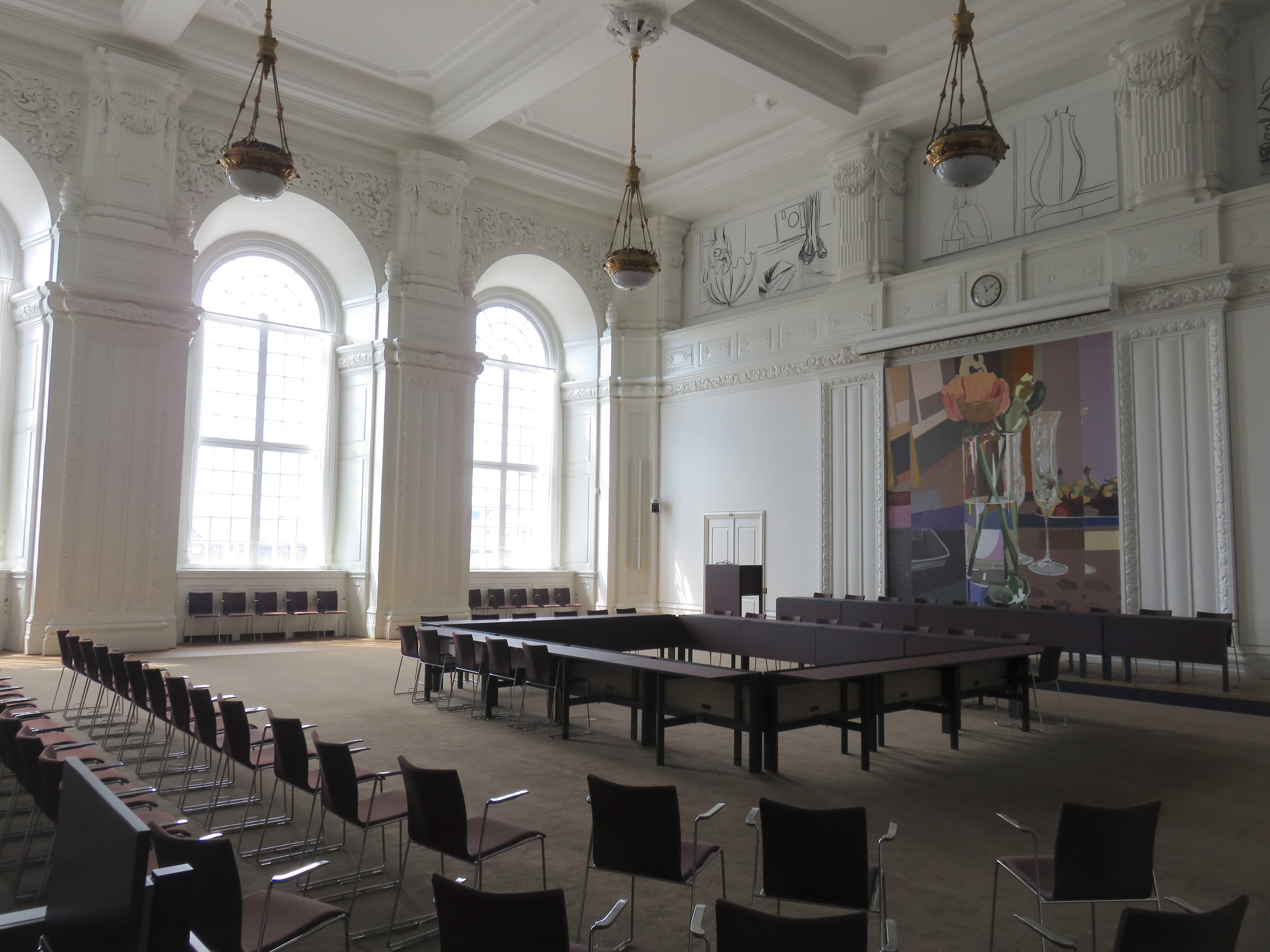 Landsting chamber in Christiansborg Palace, Copenhagen, Denmark in 2018